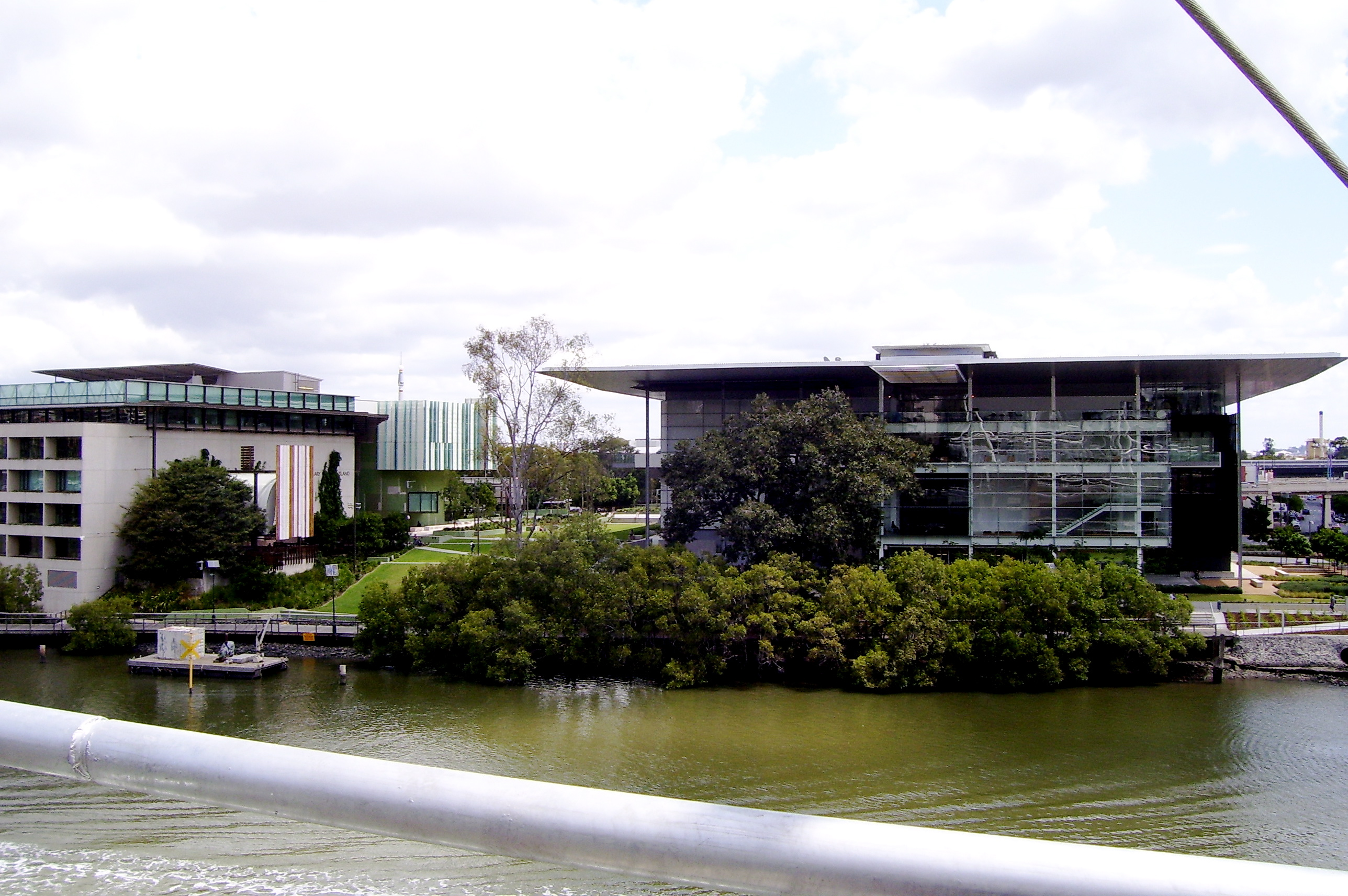 Queensland Gallery of Modern Art (right) and State Library of Queensland (left) from the Kurilpa Bridge